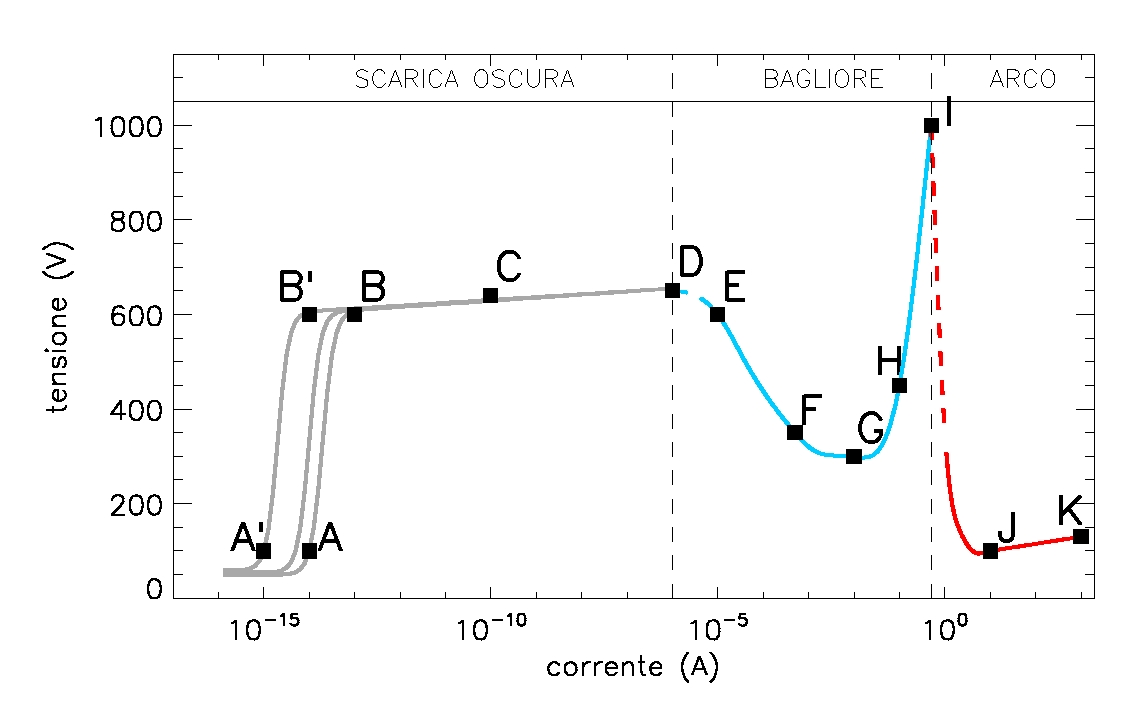 Characteristic curve (voltage vs current) of a glow discharge in Neon, 1 torr, with two planar electrodes separated by 50 cm. Data available in literature, analysis through IDL. Source of data: C. F. Gallo, Coronas and Gas Discharges in Electrophotography: A Review, IEEE Transactions on Industry Applications, Vol.IA-13, No. 6, p.739 (1975) - ruploaded to clear filename collision with english wikipedia